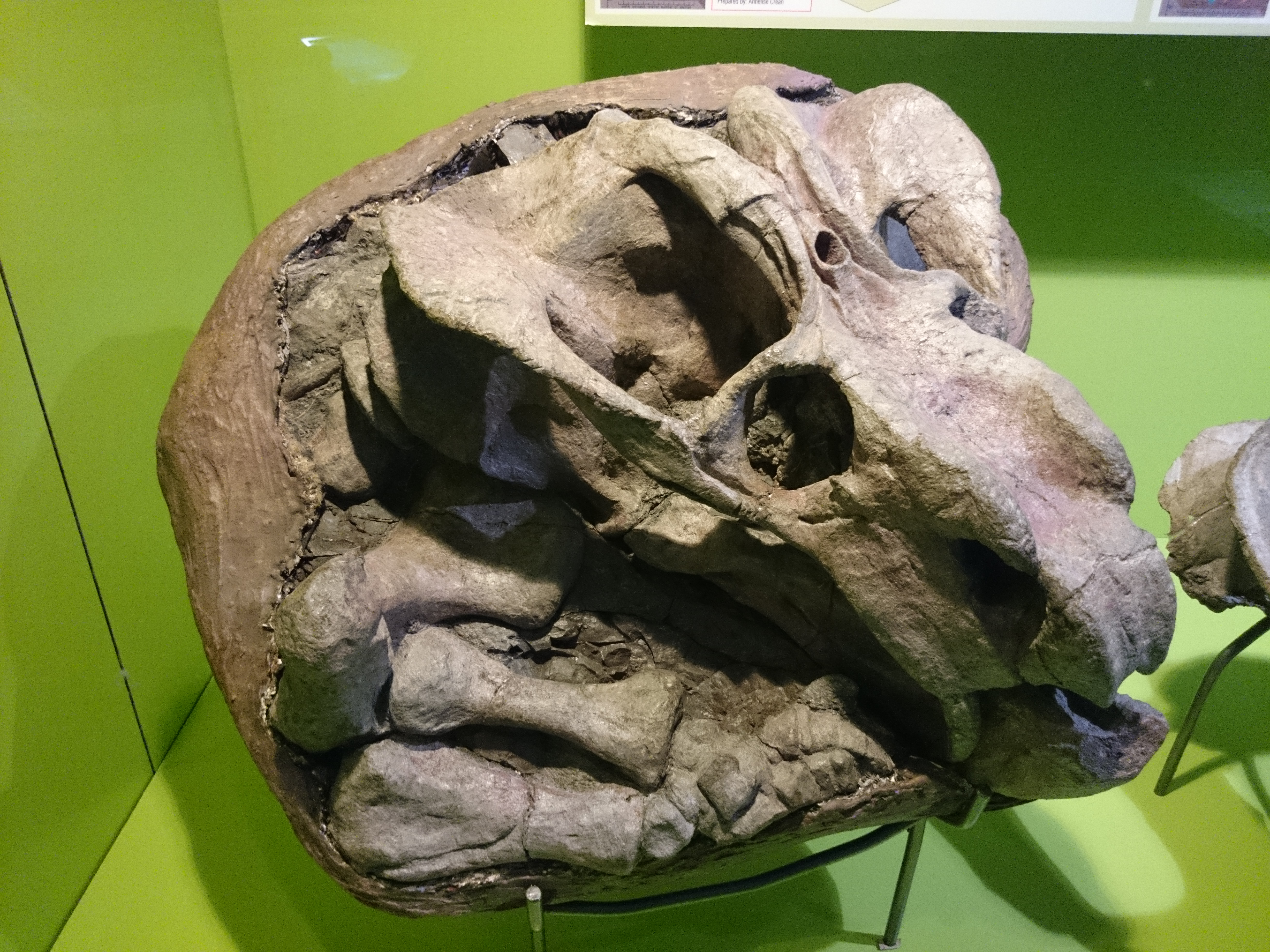 This huge skull belongs to a mammal-like reptile called Odontocyclops meaning "toothy cyclops" after the one-eyed giants from Gree mythology. While the animal clearly had two normal eyes with which to see, it also had what scientists call a "pineal eye" - a hole in the middle of the forehead. This hole leads directly to the pineal organ in the brain In reptiles, the pineal organ senses changes in temperature and light. This is important because such "cold-blooded" animals cannot control their body temperature from within so they must find other ways to stay warm in winter (eg basking) and cool i nsummer (eg. burrowing). It is likely that the large dicynodonts being so fat with such short legs, were able to keep their core temperature fairly stable so they could have been partially warm blooded